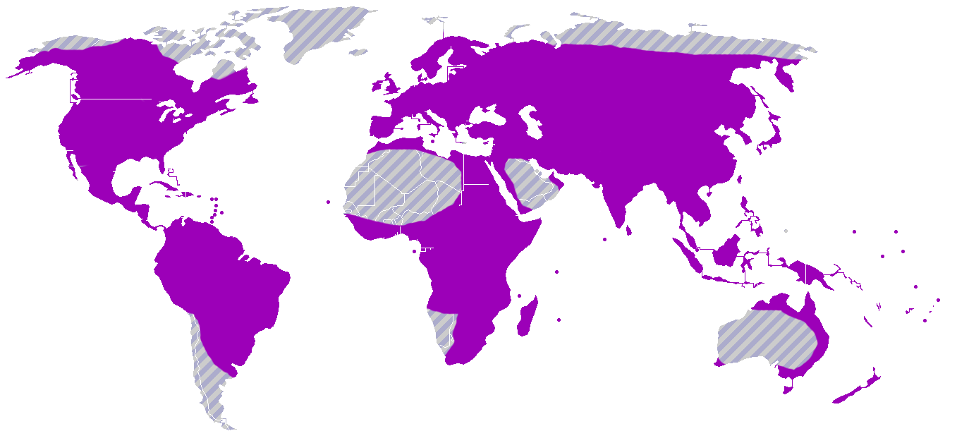 Distribution of Epidendroideae